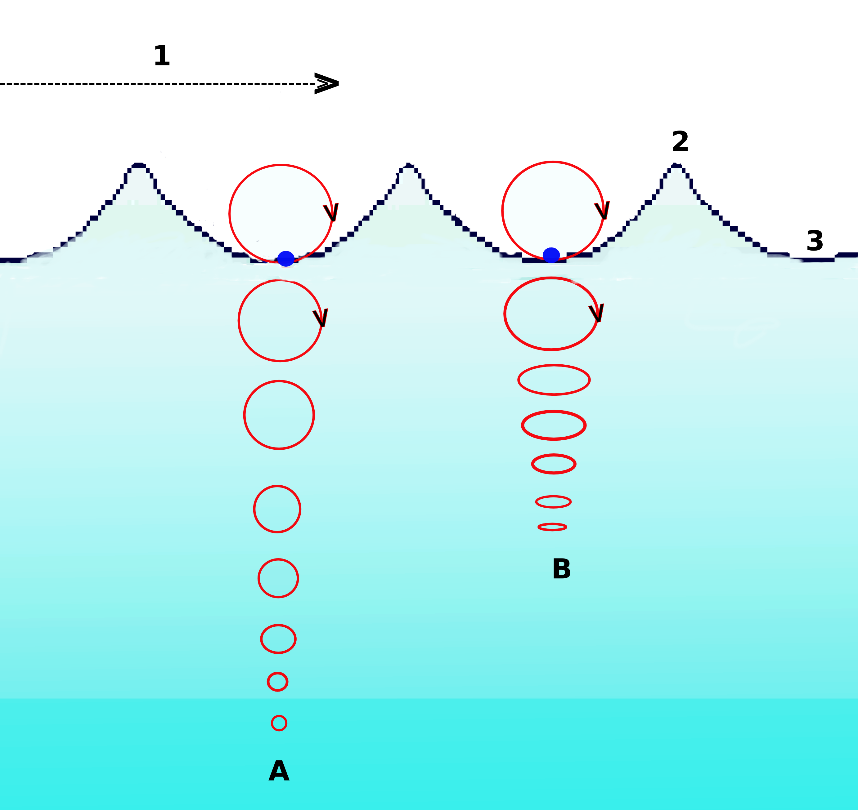 A particle motion in an ocean wave. A=At deep water. B=At shallow water. The circular movement of a surface particle becomes eliptical with increasing depth 1= Progression of wave 2= Crest 3=Trough